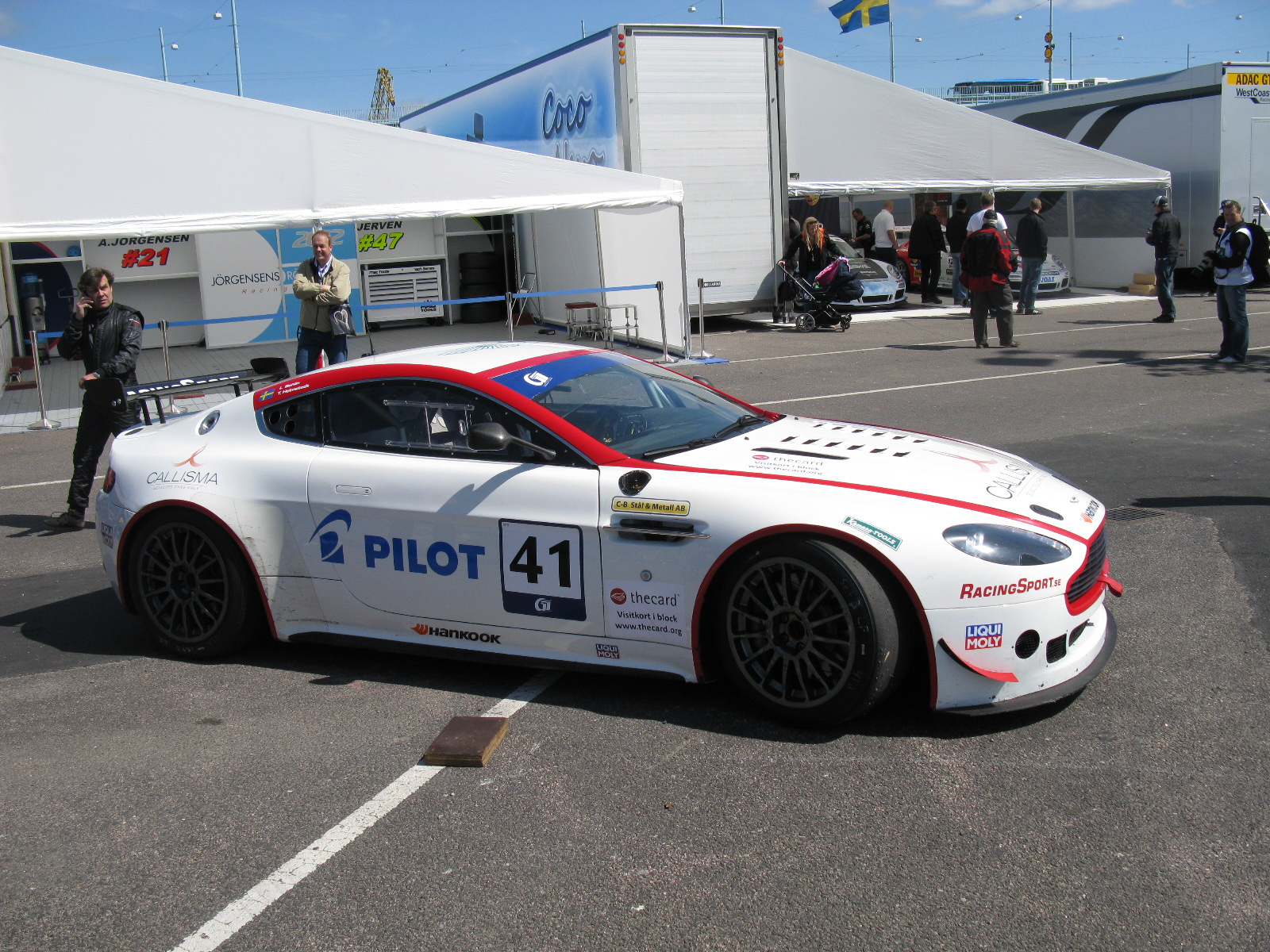 Aston Martin V8 GT4